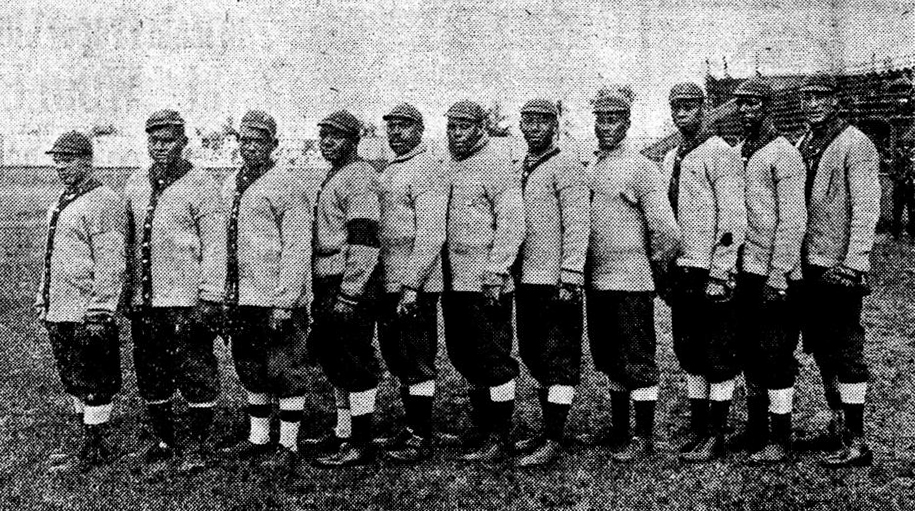 St. Paul Colored Gophers of 1910, from left to right, Rabbit McDougal, Shortstop; George Bowman, 2nd Baseman; Lefty Pangburne, Pitcher; Candy Jim Taylor, 3rd Baseman and Captain; William Binga, Right Fielder; Mule Armstrong, Catcher; Johnny Davis, Pitcher; Sherman Barton, Center Fielder; Wesley, Left Fielder; Ford, Pitcher; Bobby Marshall, 1st Baseman.